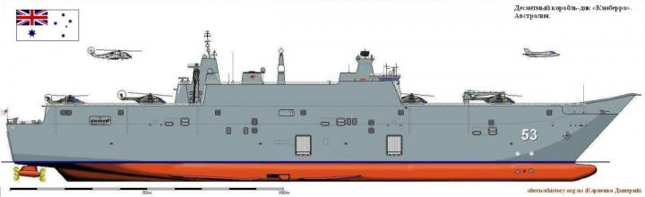 Canberras